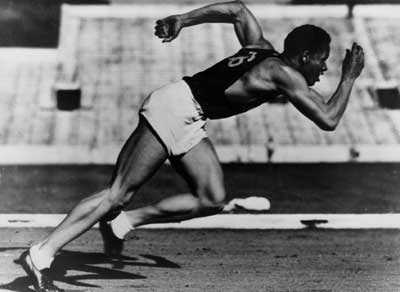 Archie Williams at the 1936 Olympics in Berlin